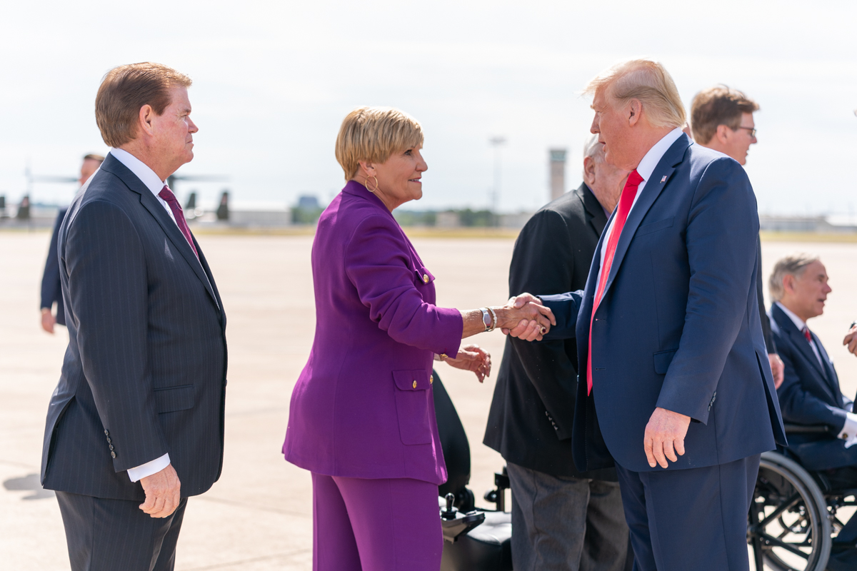 President Donald J. Trump is welcomed by Fort Worth Mayor Betsy Price after disembarking Air Force One Thursday, Oct. 17, 2019, at Joint Reserve Base Fort Worth in Texas Thursday, Oct. 17, 2019. (Official White House Photo by Shealah Craighead)